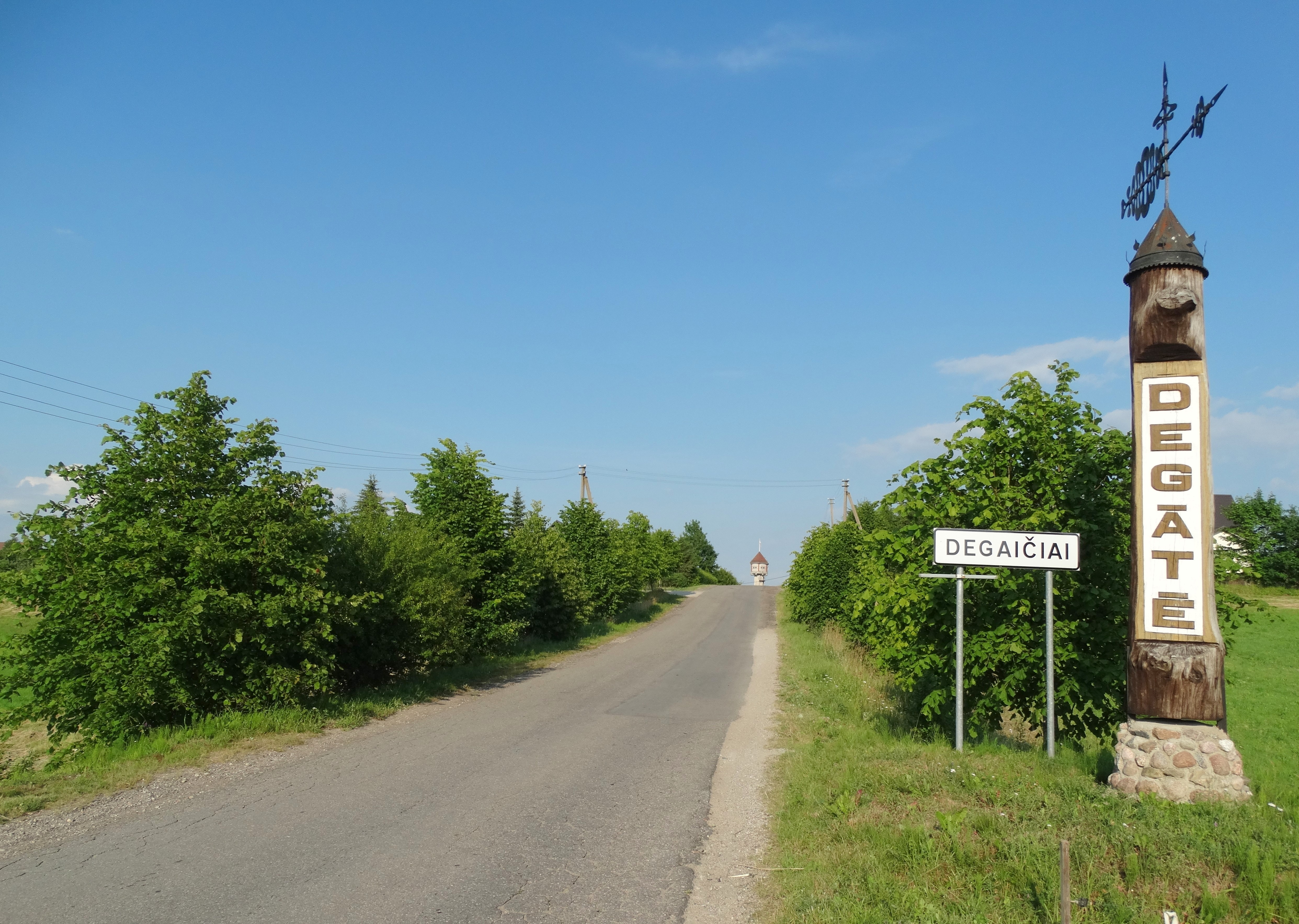 Degaičiai, Telšiai district, Lithuania